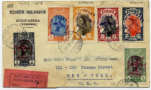 Ethiopia registered first flight cover, posted December 26, 1929, from Addis-Ababa to New York, franked with Ethiopian air mail stamps C1-6, all Type III, two values with diagonal overprints. The cover is cut at the bottom.